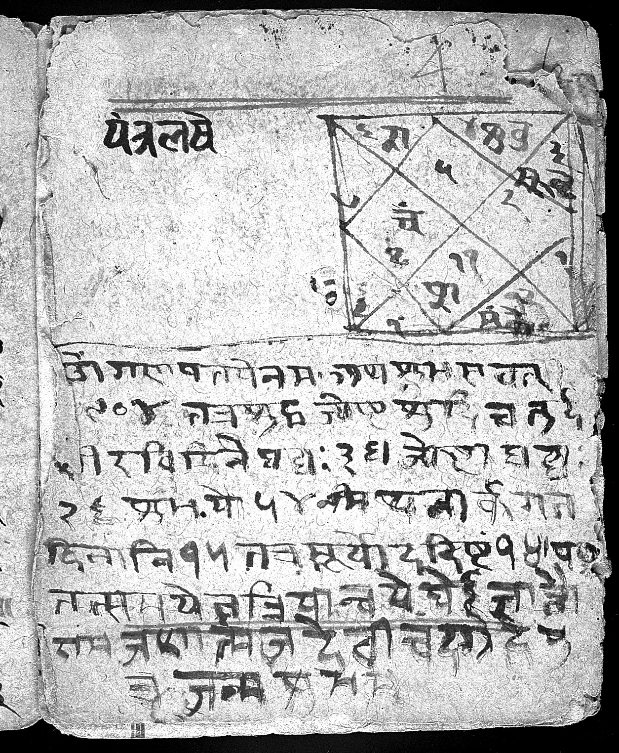 Unknown An astrological chart Asian Collection